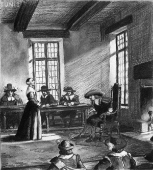 Speculative painting of Margaret Brent (1601-1671)